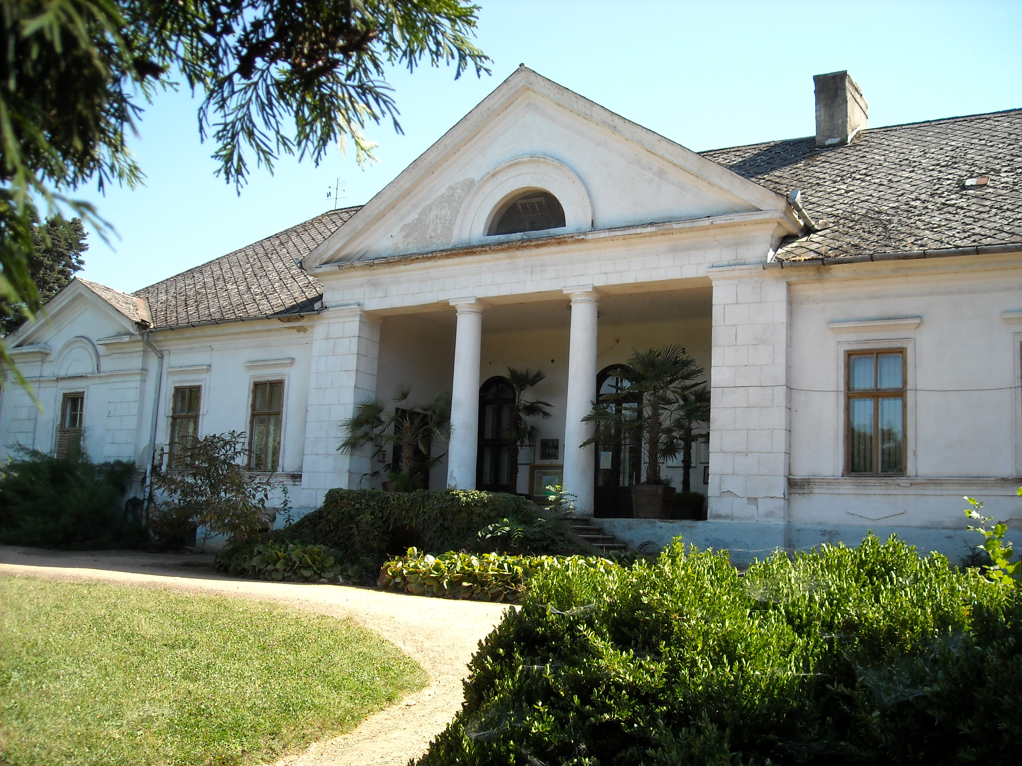 building of the Silvicultural Research Institute in Biscaria (Simeria - Hunedoara County, Romania), originally mansion of the Gyulay family